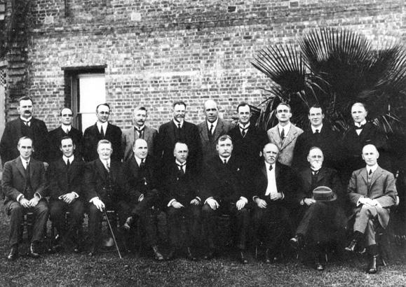 This is a group photograph of attendees at the 1917 Interstate Forestry Conference, held in Perth, Western Australia.